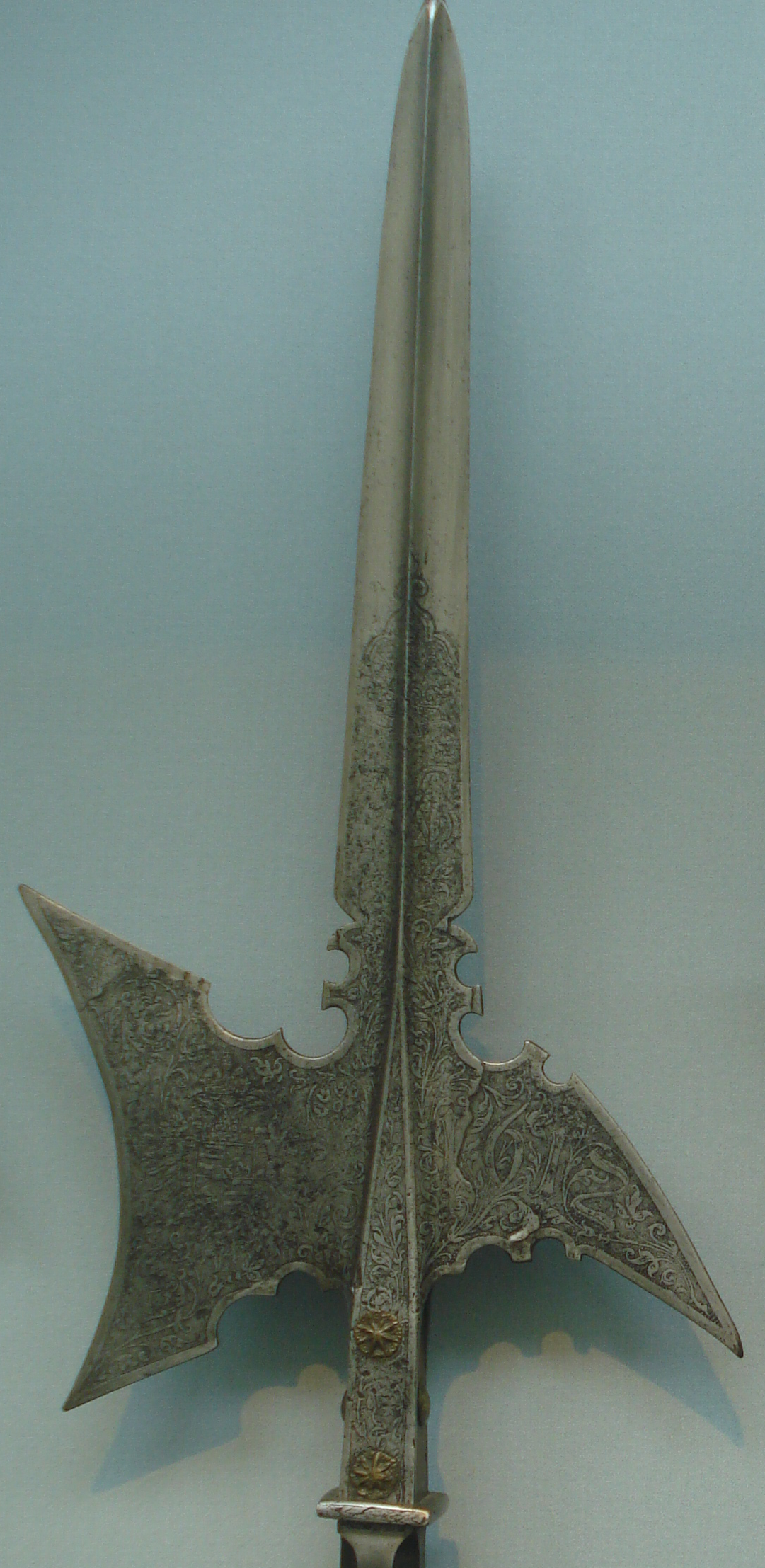 Halberd of the bodyguards of the Holy Roman Emperor Matthias (reigned 1612-1619). Etched steel and wood. German, c. 1612. In the collection of the Metropolitan Museum of Art.